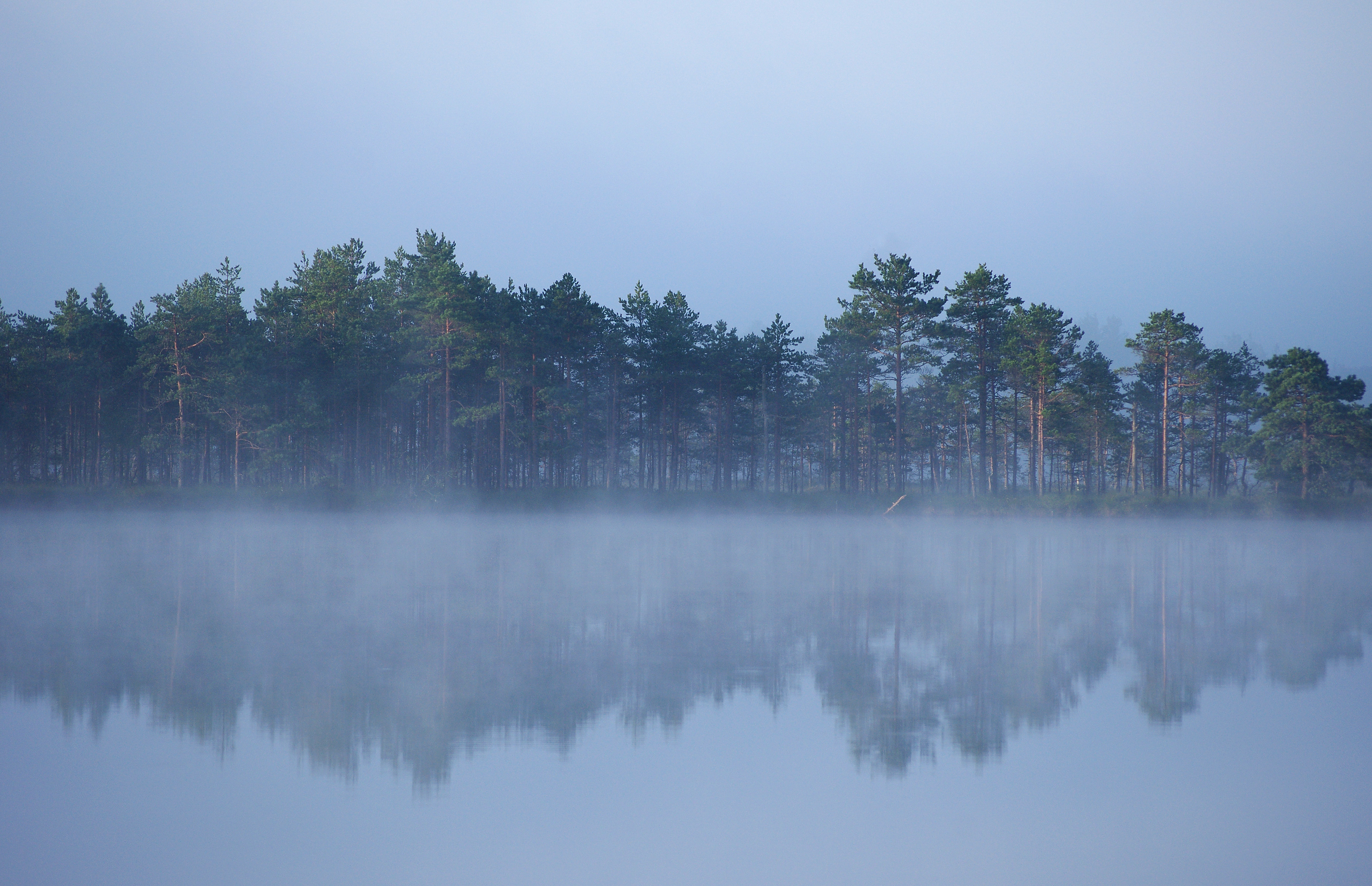 Kakerdi lake in Estonia.